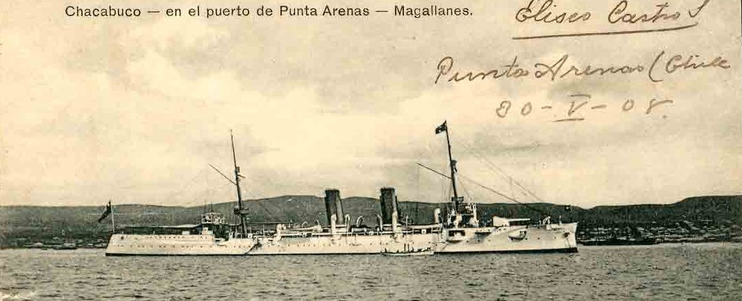 Cruiser Chacabuco (1898) in Punta Arenas